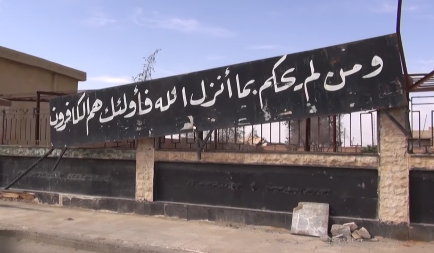 ISIL sign in al-Shaddadah which proclaims that "Those who are not under the rule of Allah will be deemed an infidel"; this edict was used as justification for several executions in al-Shaddadah.